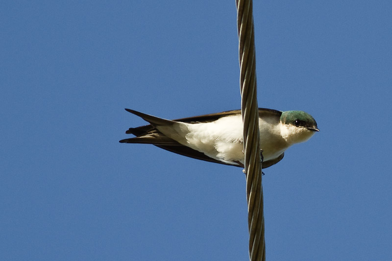 A Bahama Swallow, at Marsh Harbour, Great Abaco, Bahamas.